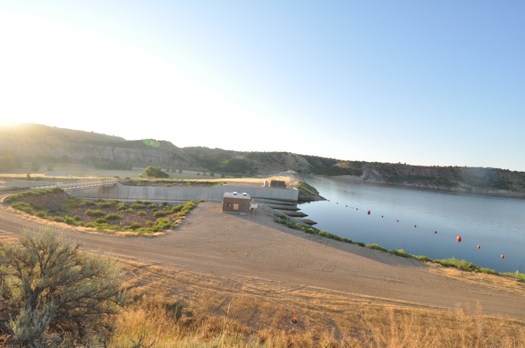 Tongue River Reservoir Dam in southeastern Montana.